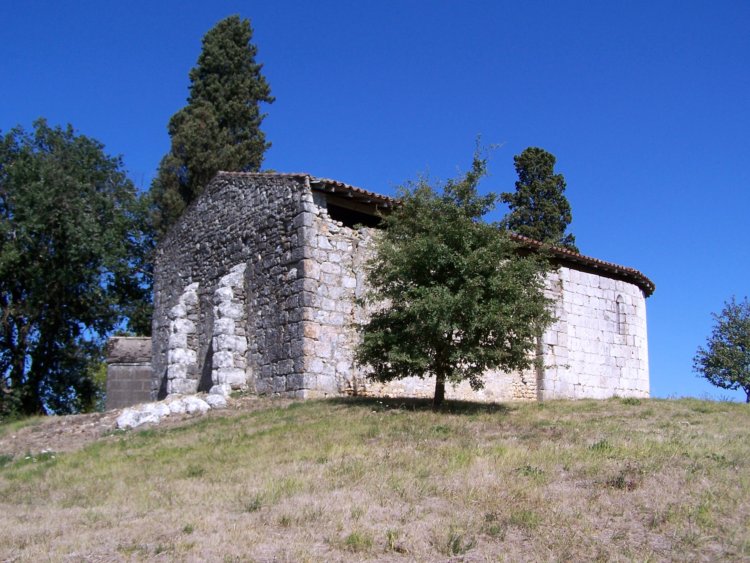 Church Saint-Martin of Campot of Grignols (Gironde, France)